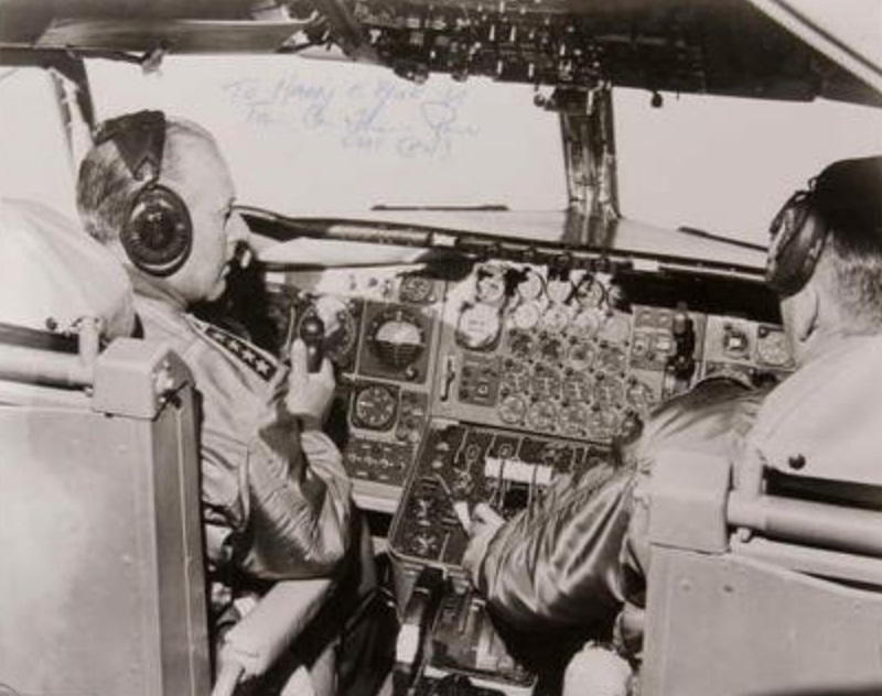 Commanders-in-Chief of The Strategic Air Command General Thomas S. Power flying a Boeing KC-135 Stratotanker.